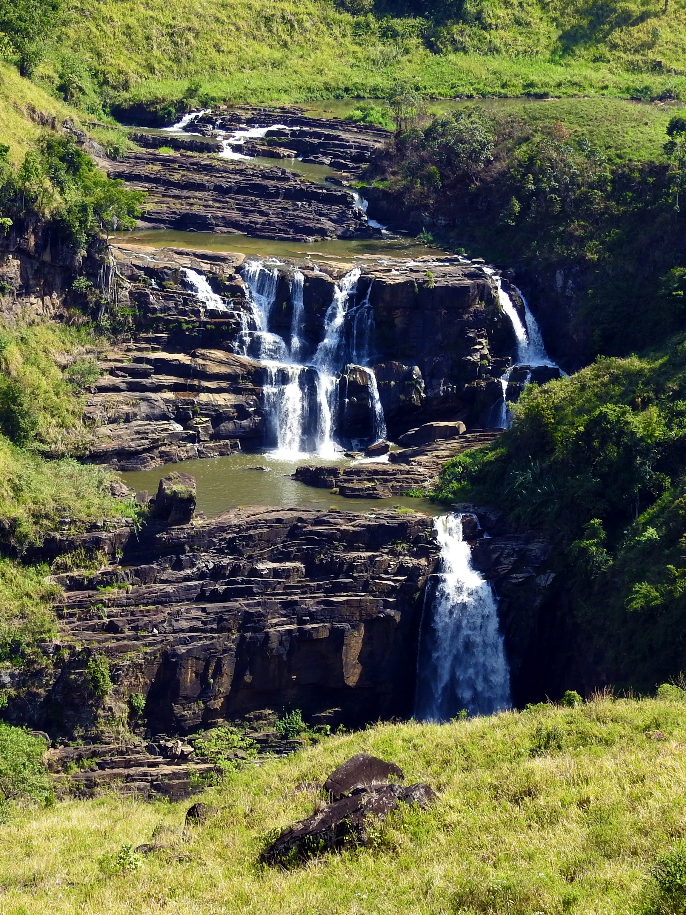 This photo was taken as part of a photo project by Wikimedia Community User Group Sri Lanka, covering current/future hydroelectric dams (and its surroundings) in the Central and Sabaragamuwa provinces of Sri Lanka. User:Rehman handled the photography, while User:Azeez and User:PasinduBR handled the logistics/planning of routes. Description of photo: St. Clair's Falls. Further information on the subject(s) of the photograph may be found in the category/ies of this file.